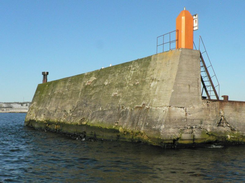 Roadstead Refueling Pier or Kuul's Egg in Tallinn Bay, Miiduranna 1 May 2007 (beacon Reidikai Fl(3)R 4.5s5m2M (B: 59°29′44.97″N; L: 24°48′2.14″E H: 1m))